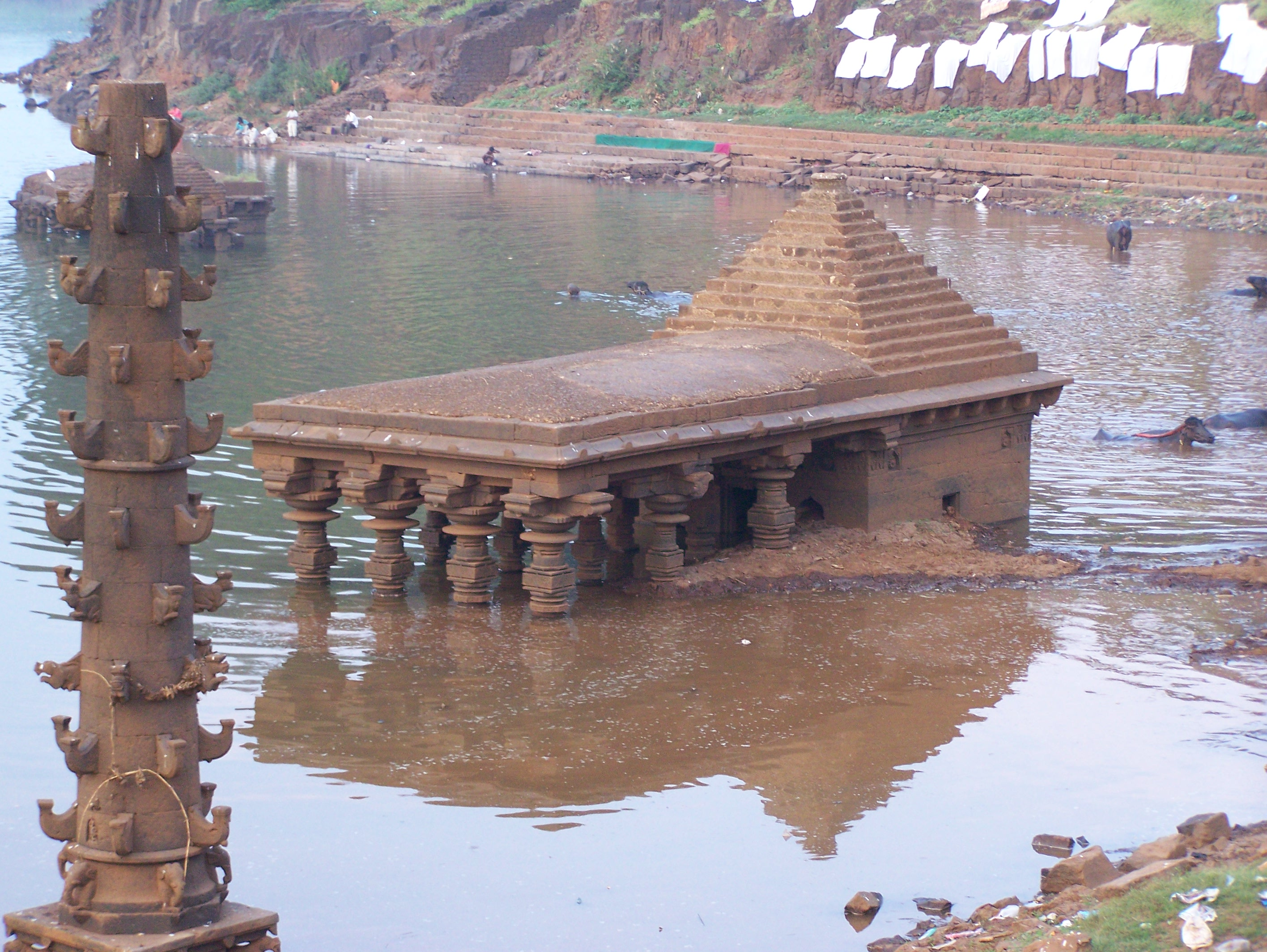 The almost drowned Temples at Panchaganga River, Kolhapur.